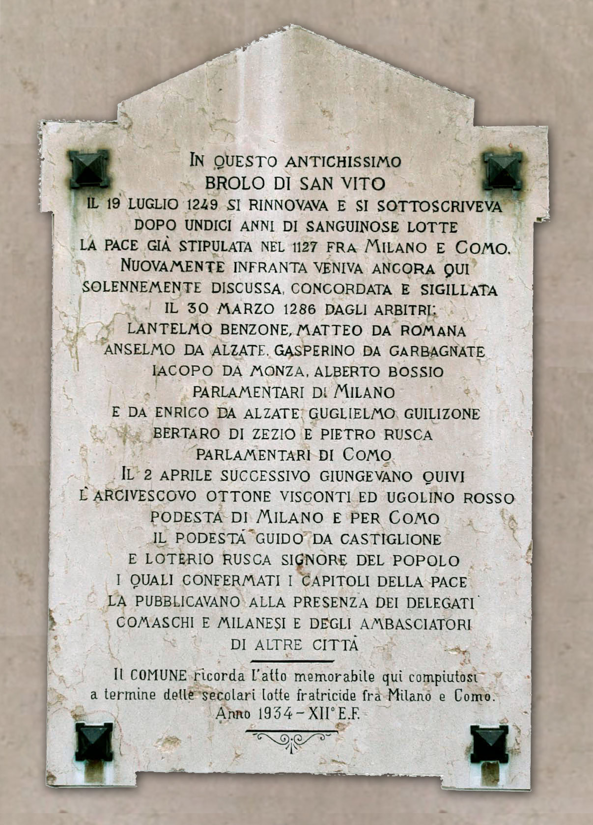 Memorial plaque of the Peace of Lomazzo, stipulated in Lomazzo at the Brolo San Vito square between the cities of Como and Milan in the year 1286 - marble plaque